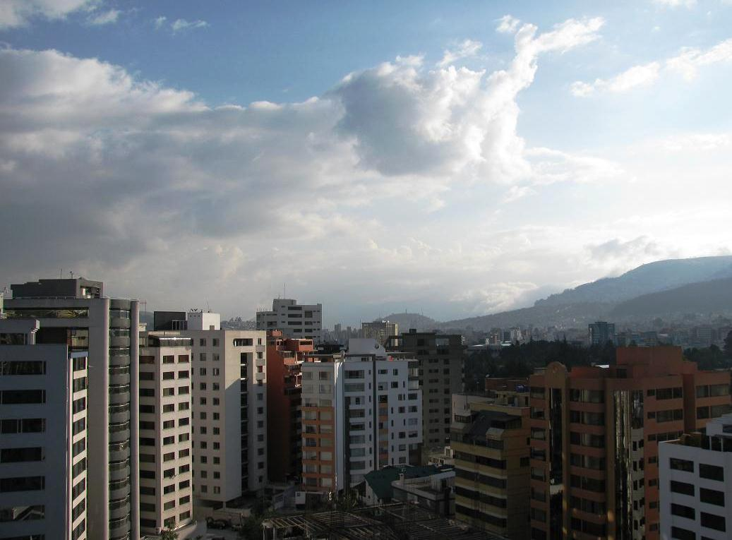 Iñaquito parish, financial district